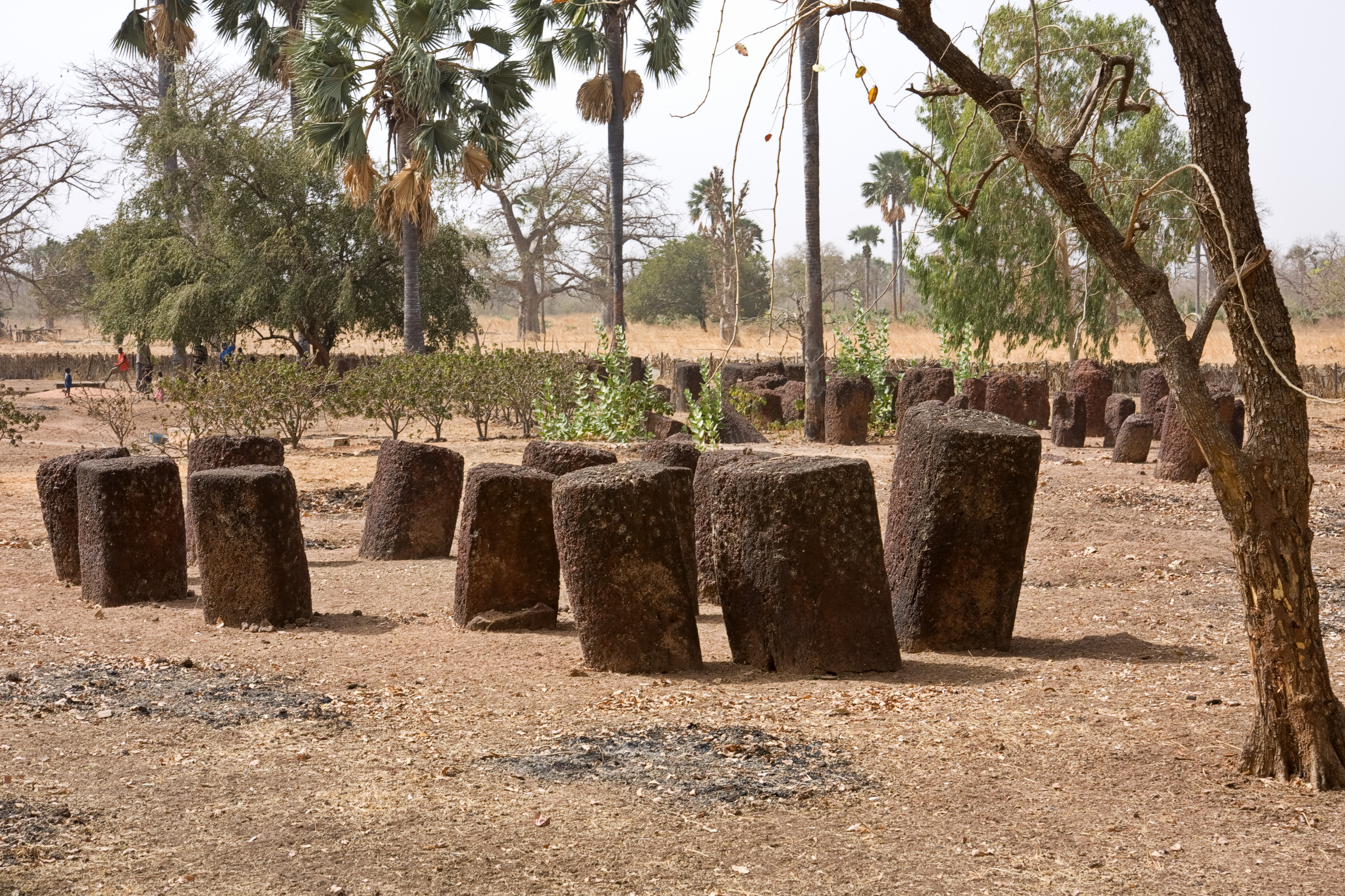 Stone circle in Kerr Batch/The Gambia